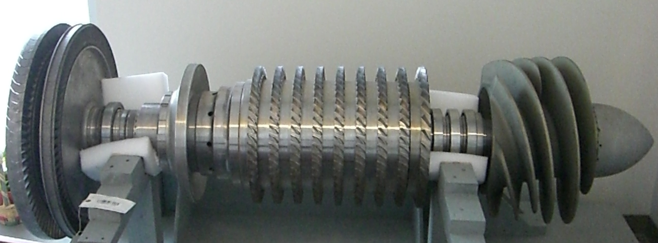 A turbopump built for the M-1 rocket, photographed at the Georgia Institute of Technology's combustion laboratory.